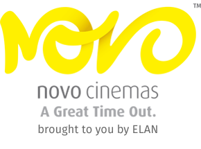 This is the Novo Cinemas official logo